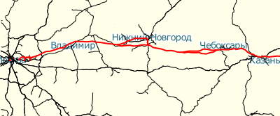 Moskva-Kazan proposed railway line. This map may be incomplete, and may contain errors. Don't rely solely on it for navigation.